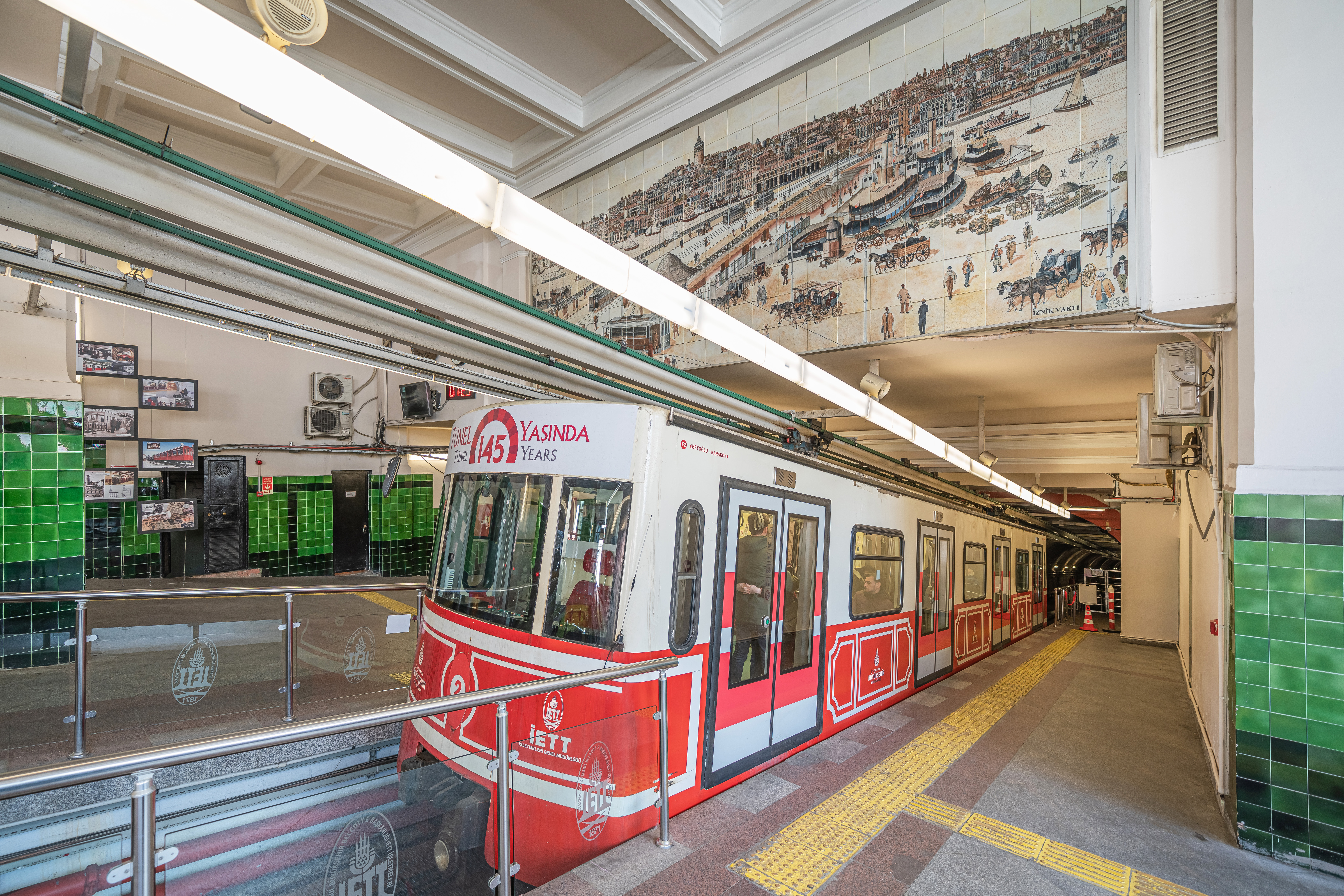 Beyoğlu station of the Tünel funicular in Istanbul, Turkey